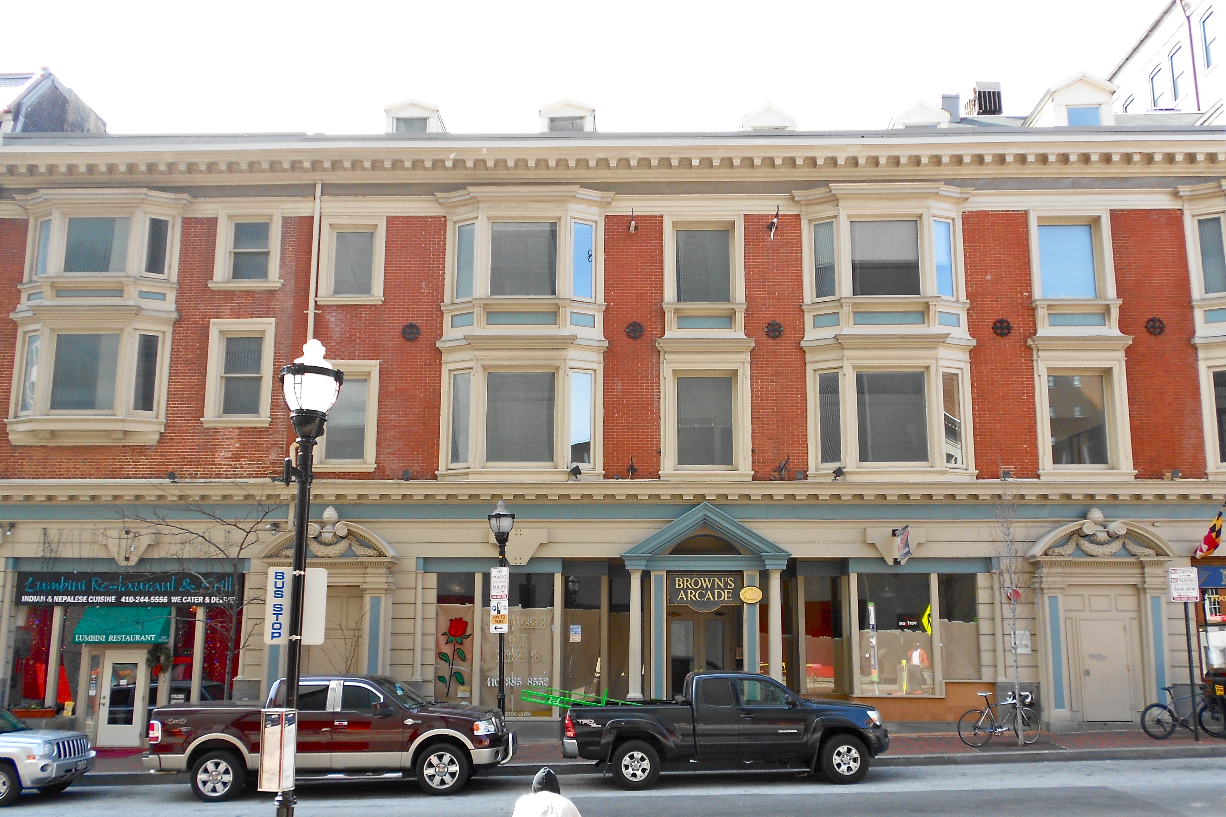 Brown's Arcade — at 322-328 N. Charles St. in central Baltimore, Maryland. On the NRHP since January 17, 1983